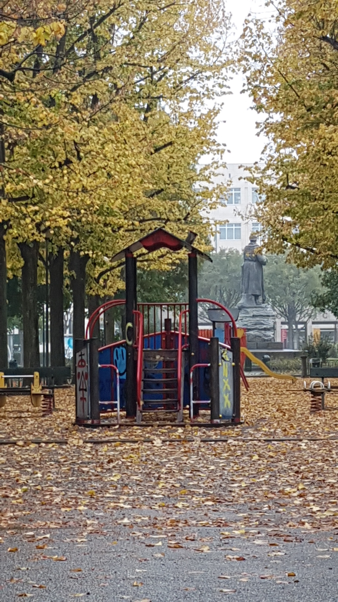 A rainy Sunday in Torino (Playground of corso Duca d'Aosta)